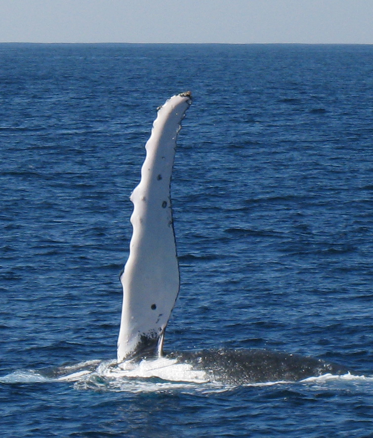 humpback whale fin